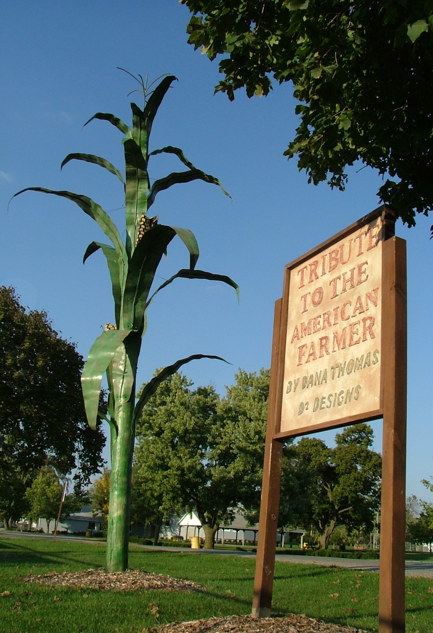 A tribute to farmers in Hoopeston, Illinois